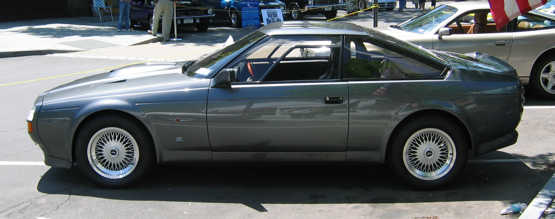 Aston Martin Vantage Zagato 6.3 (LHD, 5MT) at the 2004 Scarsdale Concours